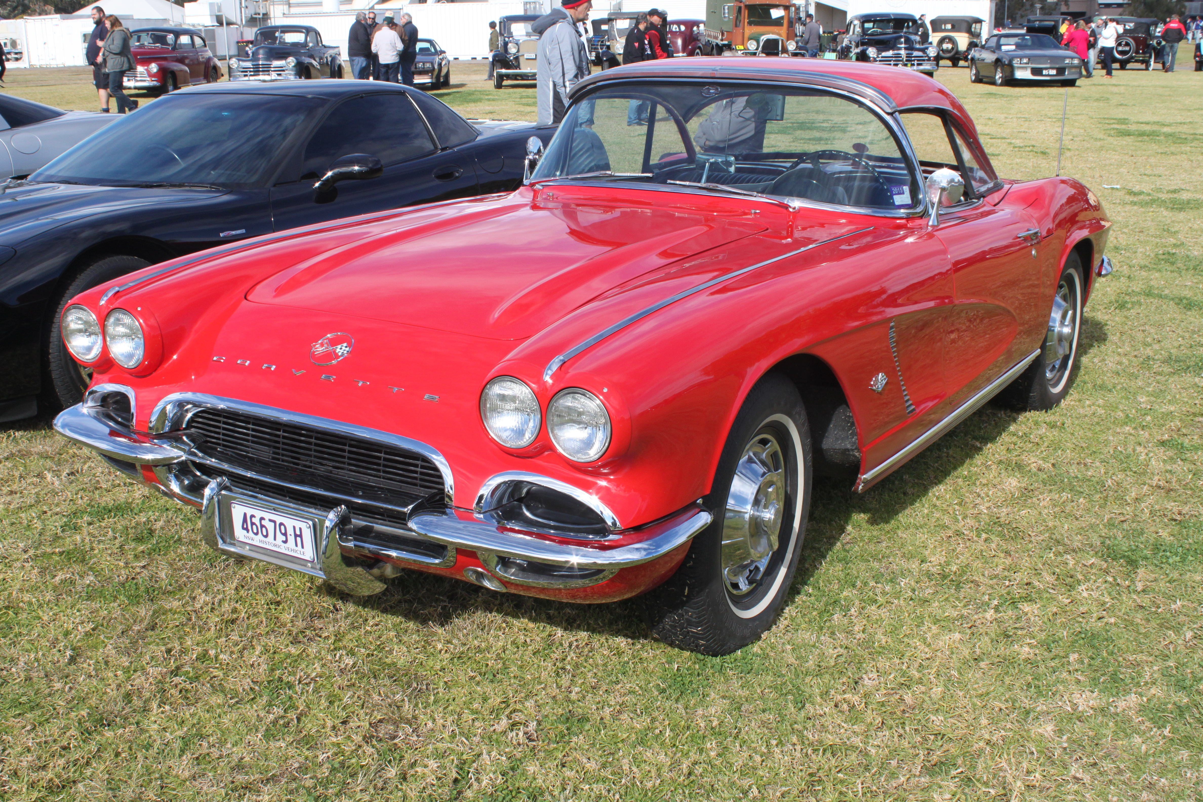 GM Display Day, Penrith Panthers, NSW July 2015